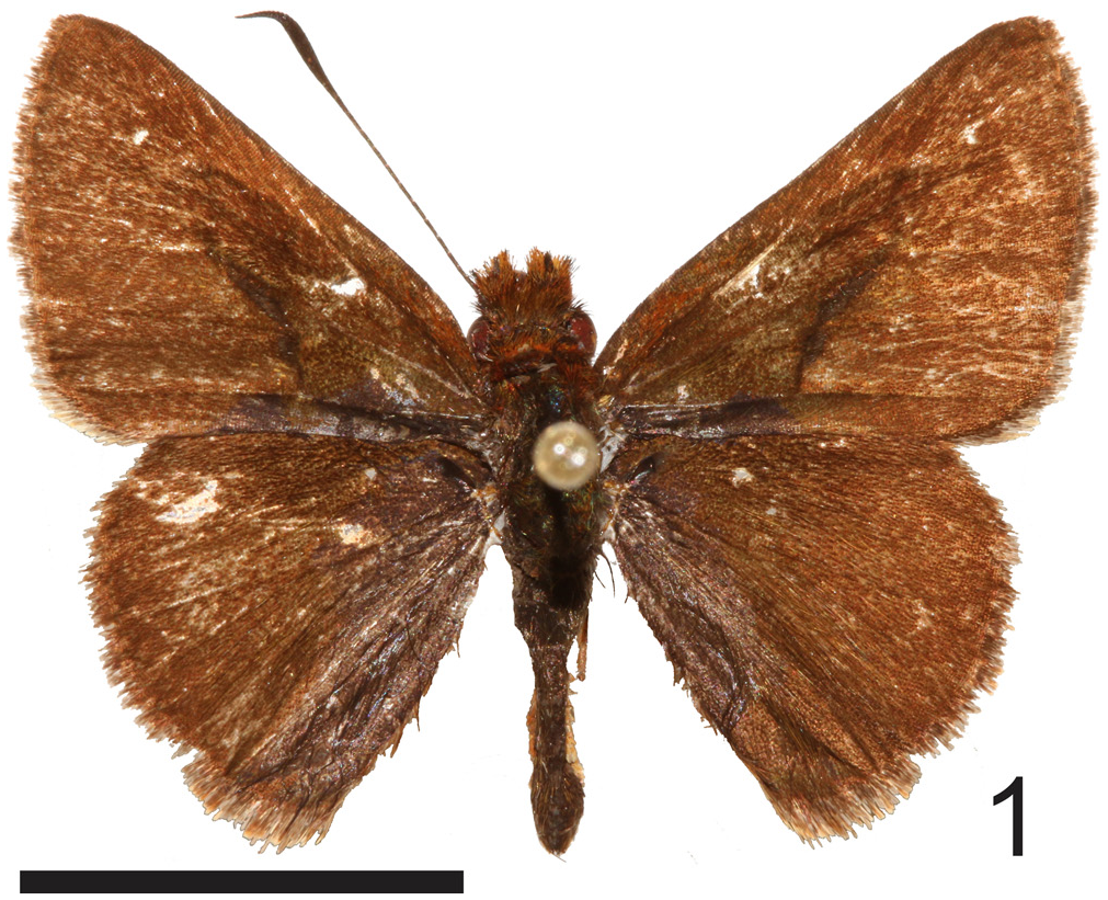 Wahydra graslieae A. Warren, Carneiro, & Dolibaina male holotype. dorsal. Scale bar = 1 cm.